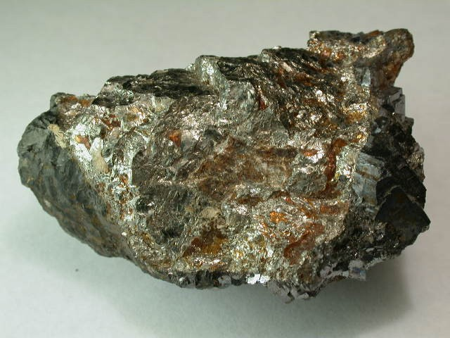 Löllingite Locality: Nine Mile mine, Broken Hill, Yancowinna County, New South Wales, Australia Original description: A 4.6 by 3.2 cms silvery mass with some Galena on the right and Sphalerite on the left. JSS specimen and photograph.